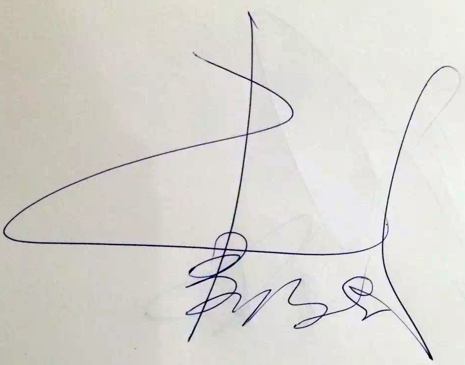 This is Willie Wai's signature.